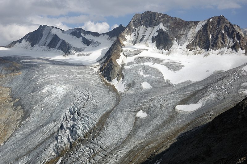 Mts. Marzellspitze, Hintere Schwärze and glacier Marzellferner from Marzellkamm.